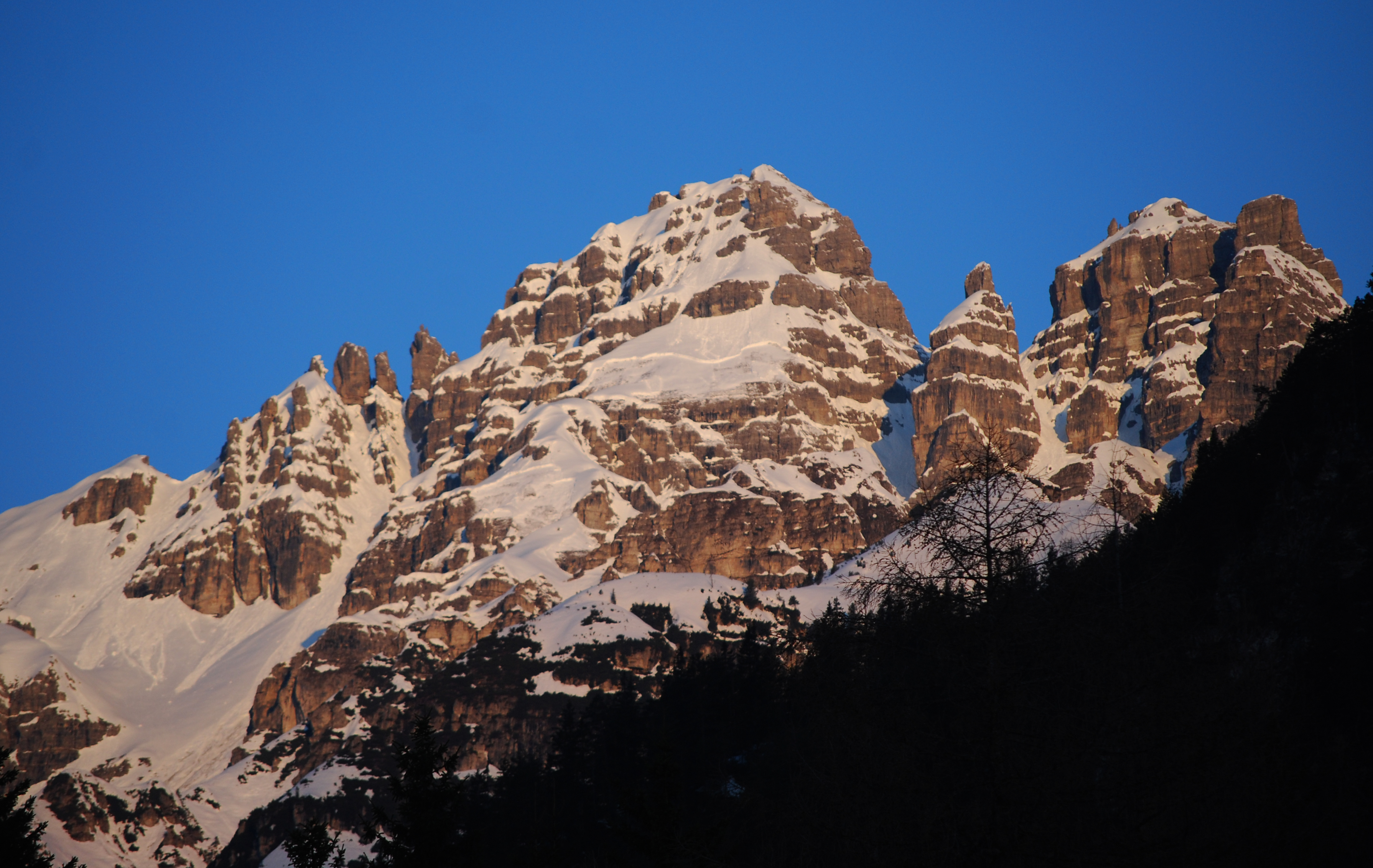 Steingrubenkogel from East